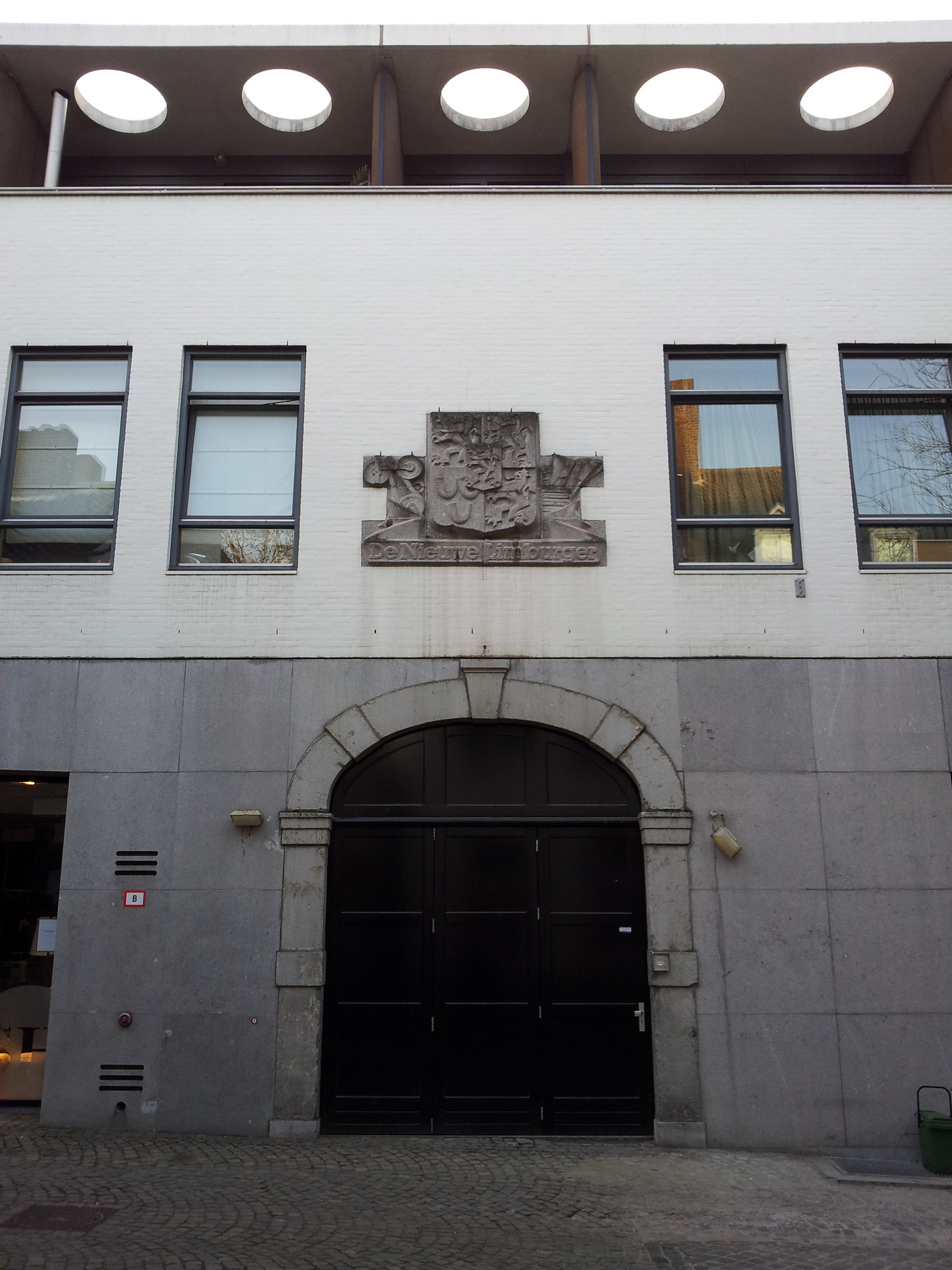 Maastricht, the Netherlands. Former building of local newspaper ´´De Limburger´´ in Havenstraat.